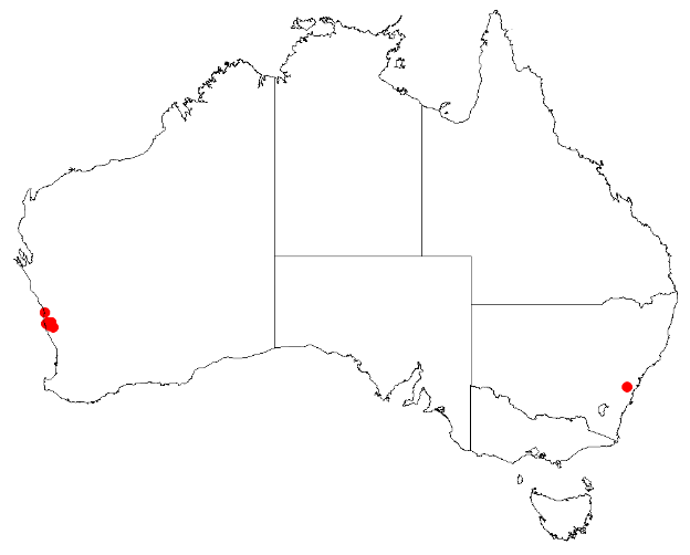 Hakea neurophylla Occurrence data downloaded from AVH on 22 November 2018 using